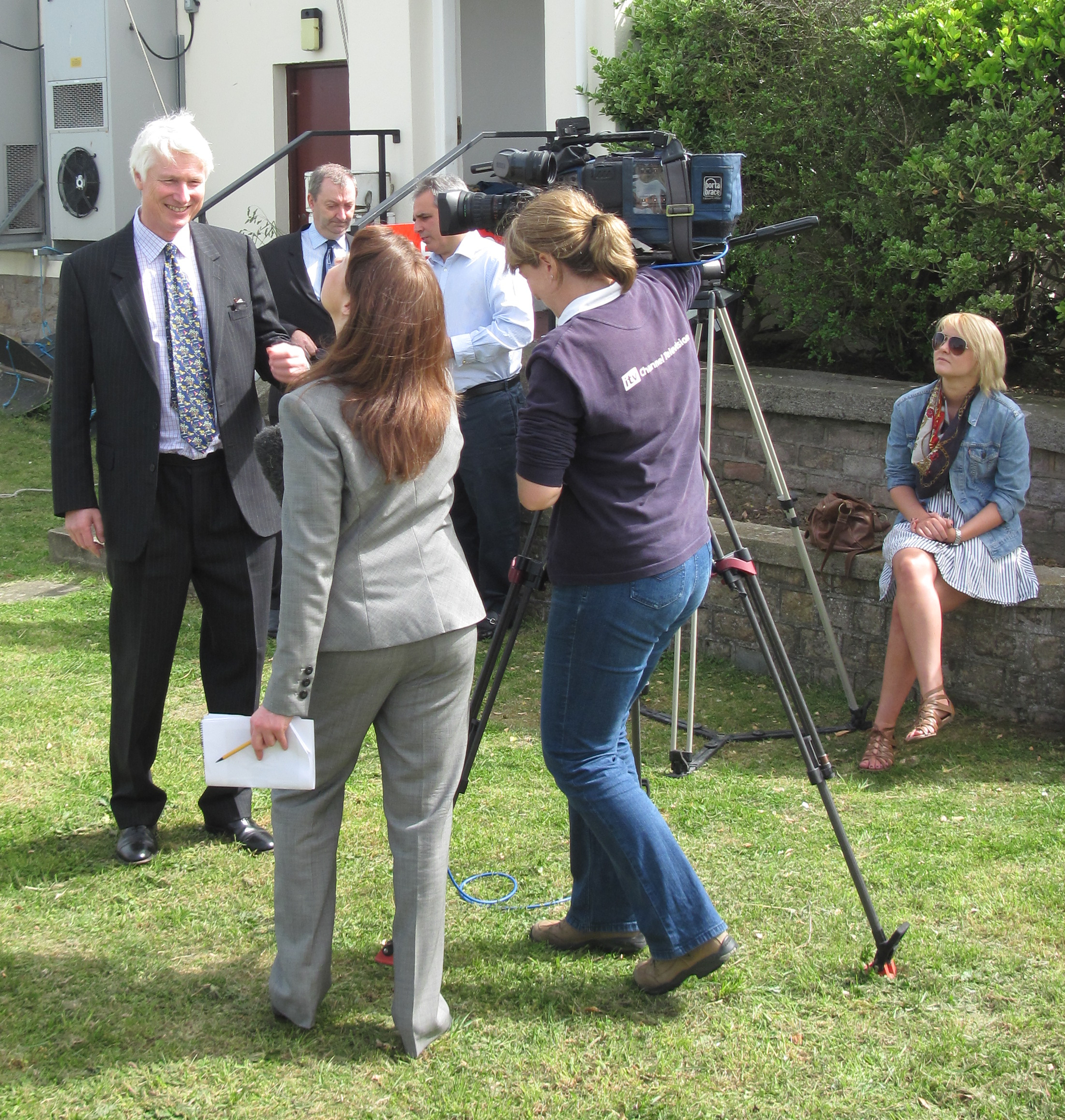 The modern version of the Jersey flag came into use on 7 April 1981. To mark the 30th anniversary a flag hoisting ceremony was held at Fort Regent on 7 April 2011. The Bailiff of Jersey gave a speech and raised the flag.